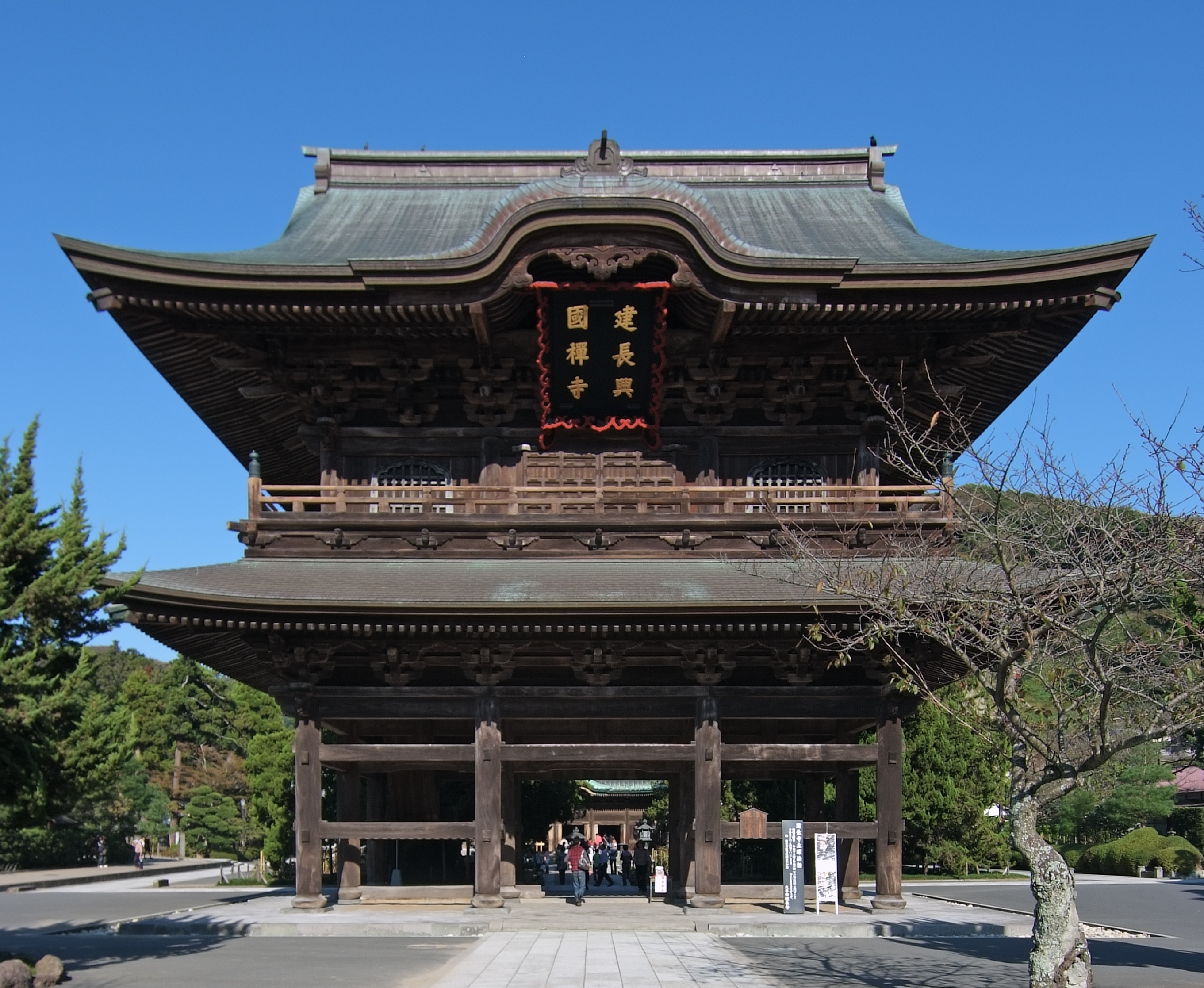 Kencho-ji, San-mon, at Kamakura Kanagawa Japan.